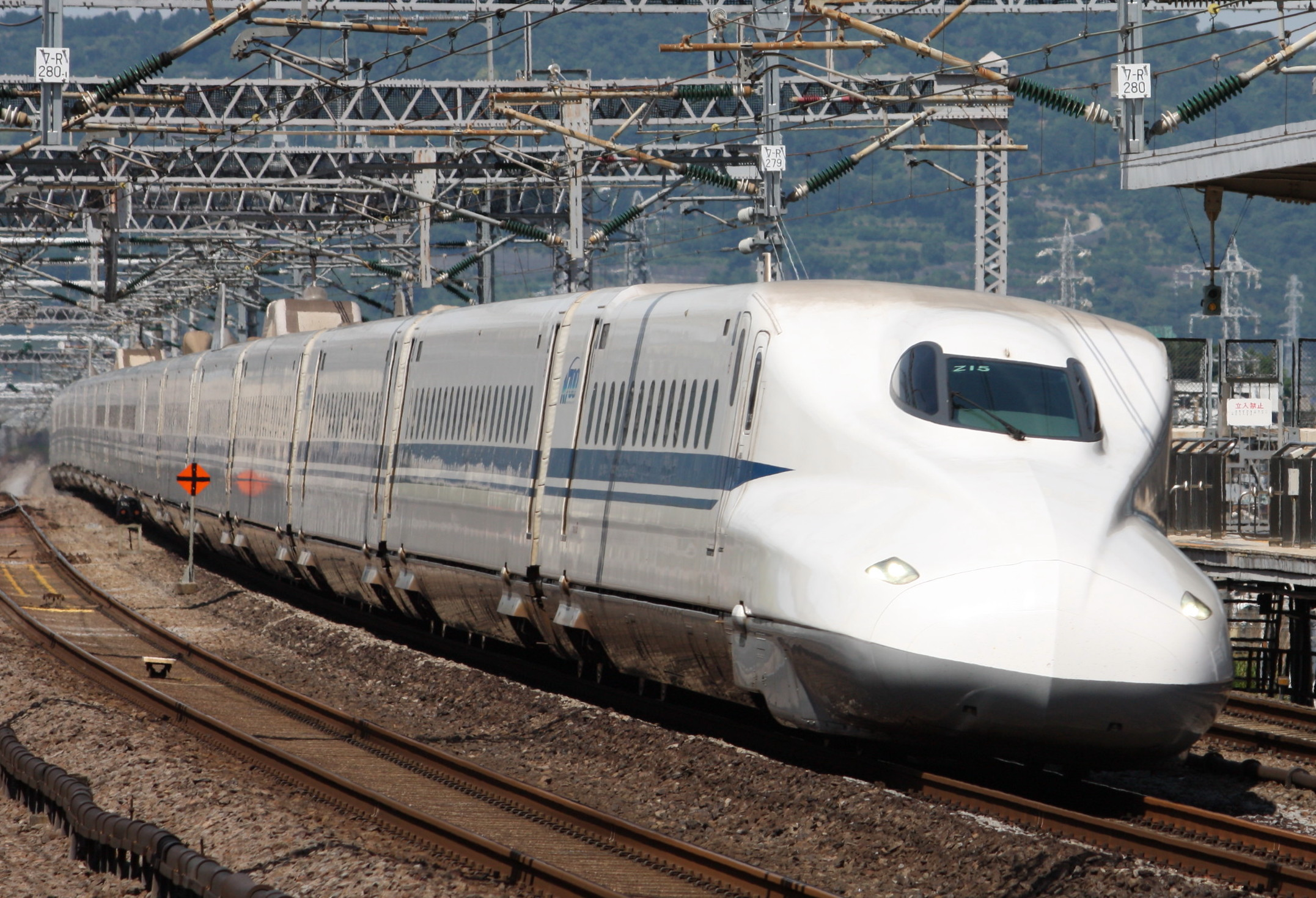 JR Central N700 series shinkansen set Z15 passing through Odawara Station